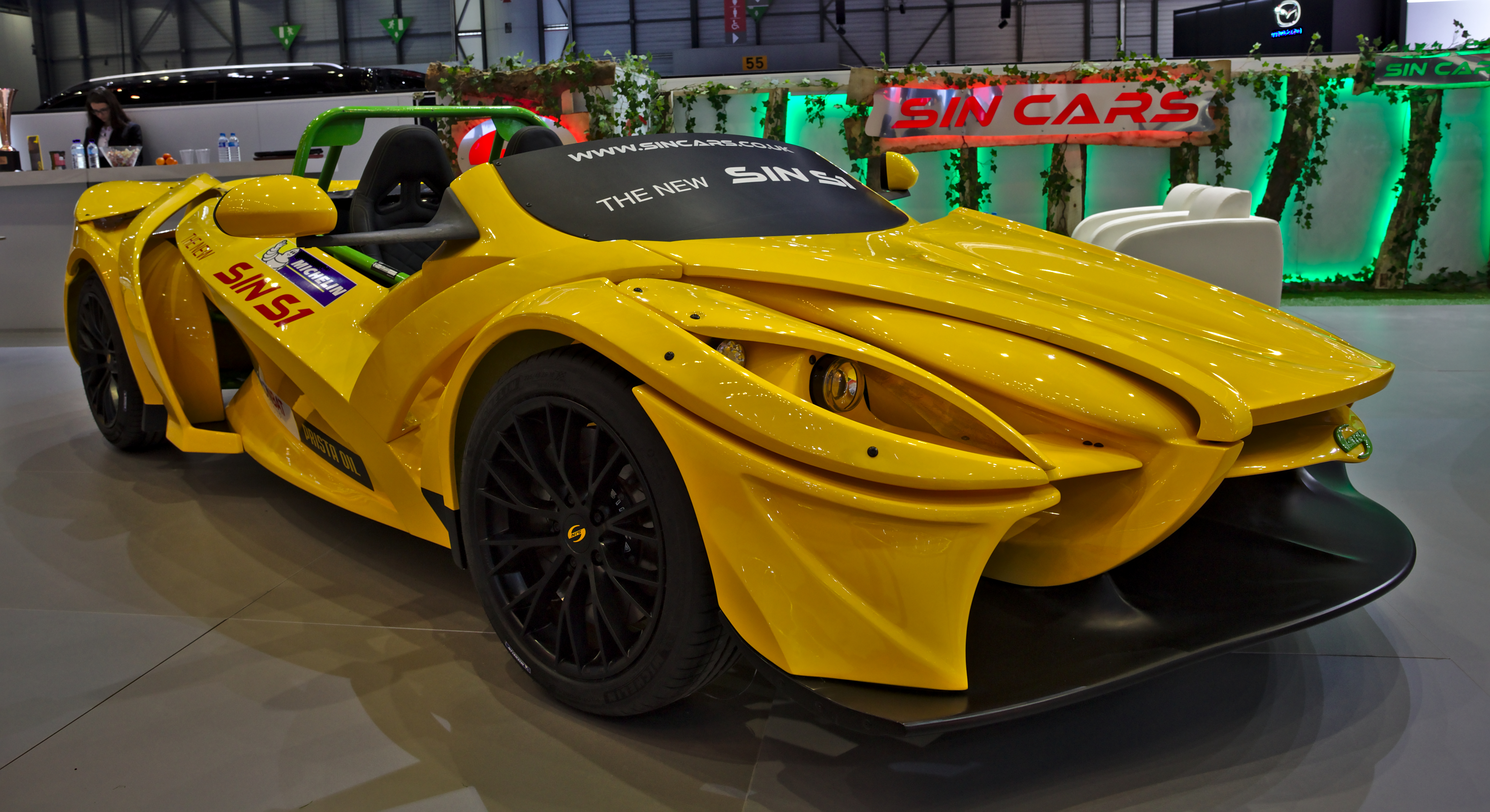 Sin S1 Pure at Geneva Motorshow 2018